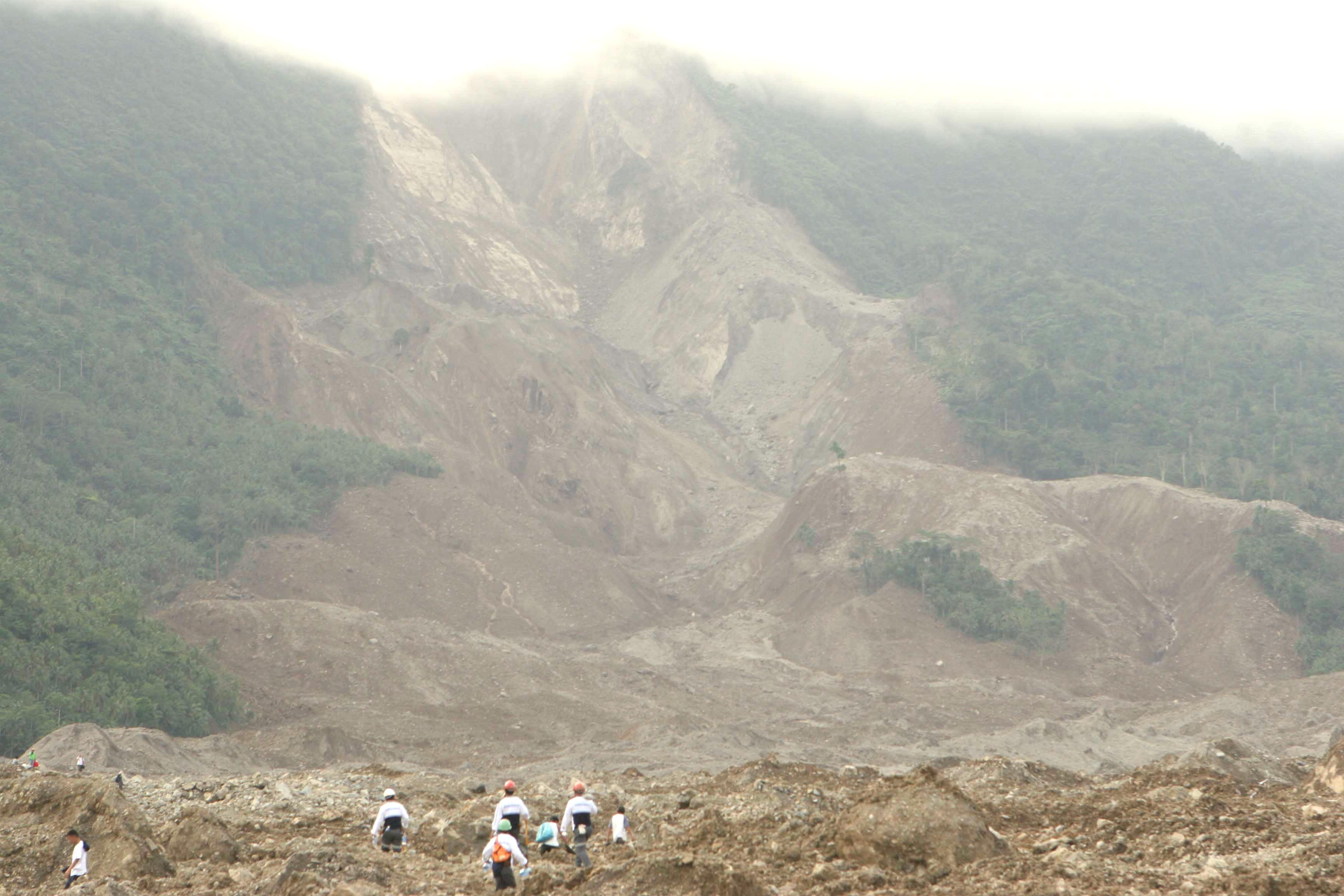 Guinsangon, Philippines (Feb. 19, 2006) – Rescue worker comb the area covered by a mudslide in Guinsangon. Sailors and Marines from the forward deployed Amphibious Ready Group (ARG), USS Harpers Ferry (LSD 49) and USS Essex (LHD 2) arrived Feb. 19 to provide humanitarian assistance and disaster relief to victims of the Feb. 17 landslide on the island of Leyte. U.S. Marine Corps photo by Cpl. Justin Park (RELEASED)